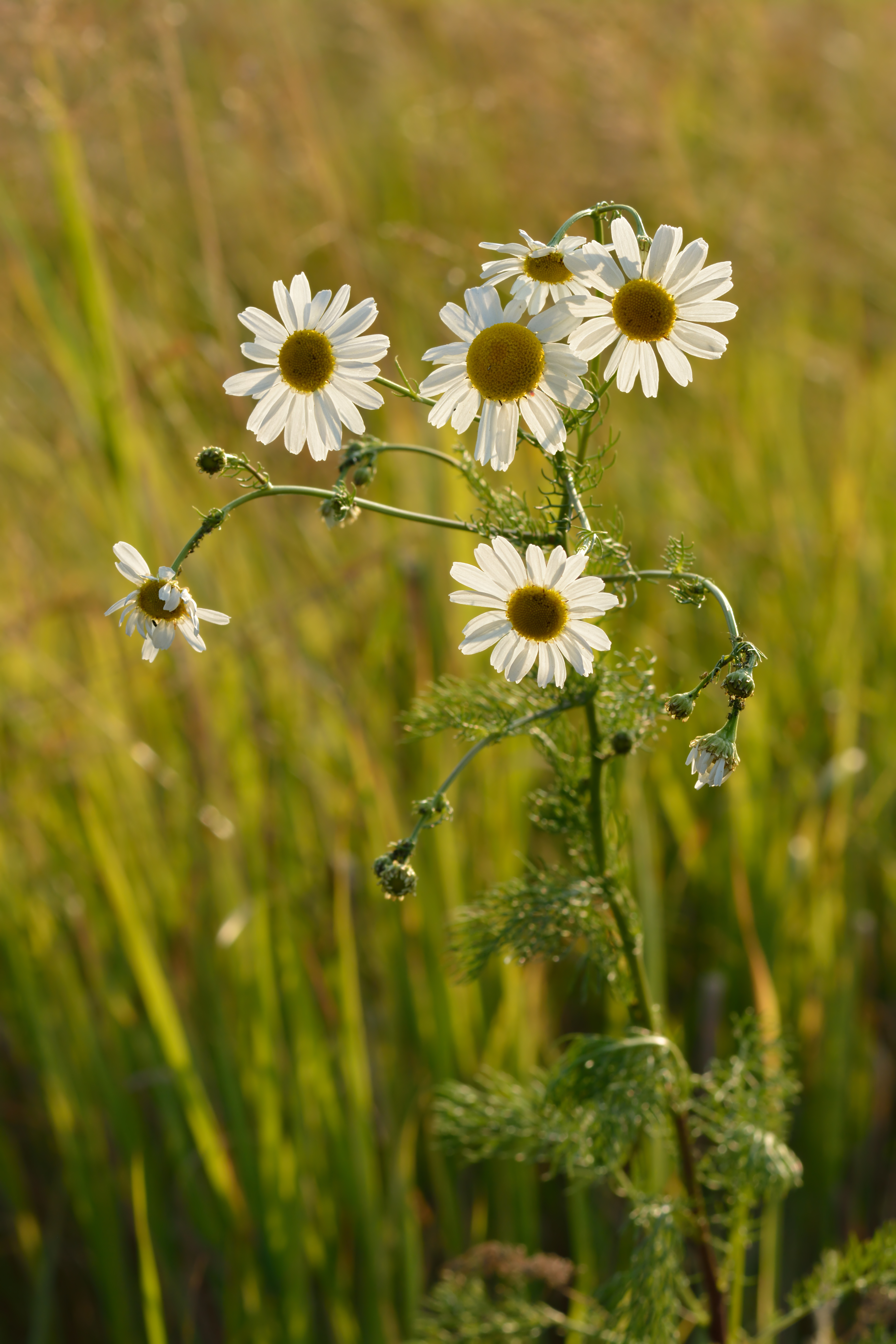 Chamomile, Matricaria recutita (syn: Matricaria chamomilla) - in Keila, Estonia.